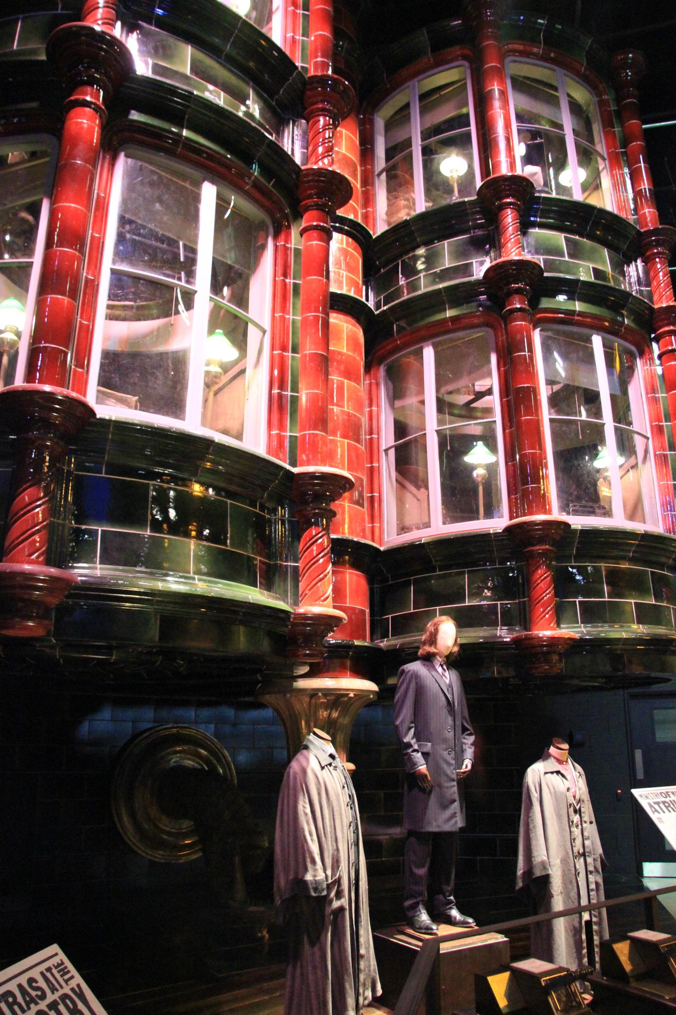 Warner Bros. Studio Tour London: The Making of Harry Potter.